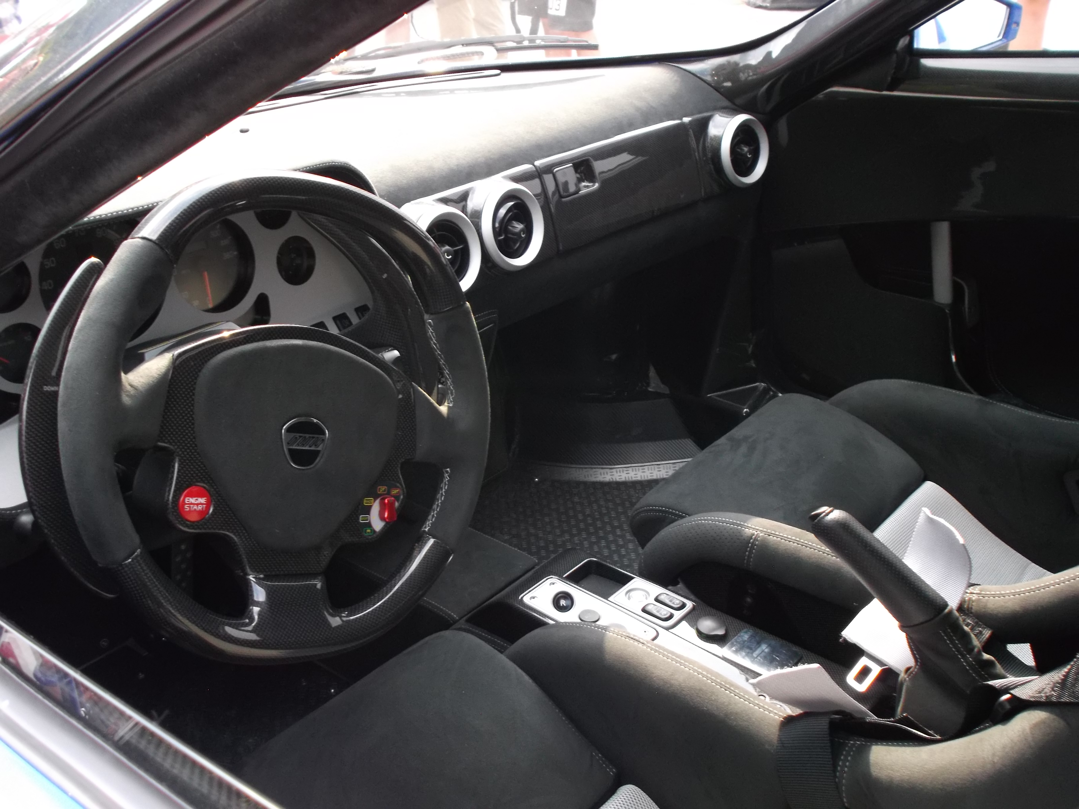 New Stratos at 2018 Trento-Bondone